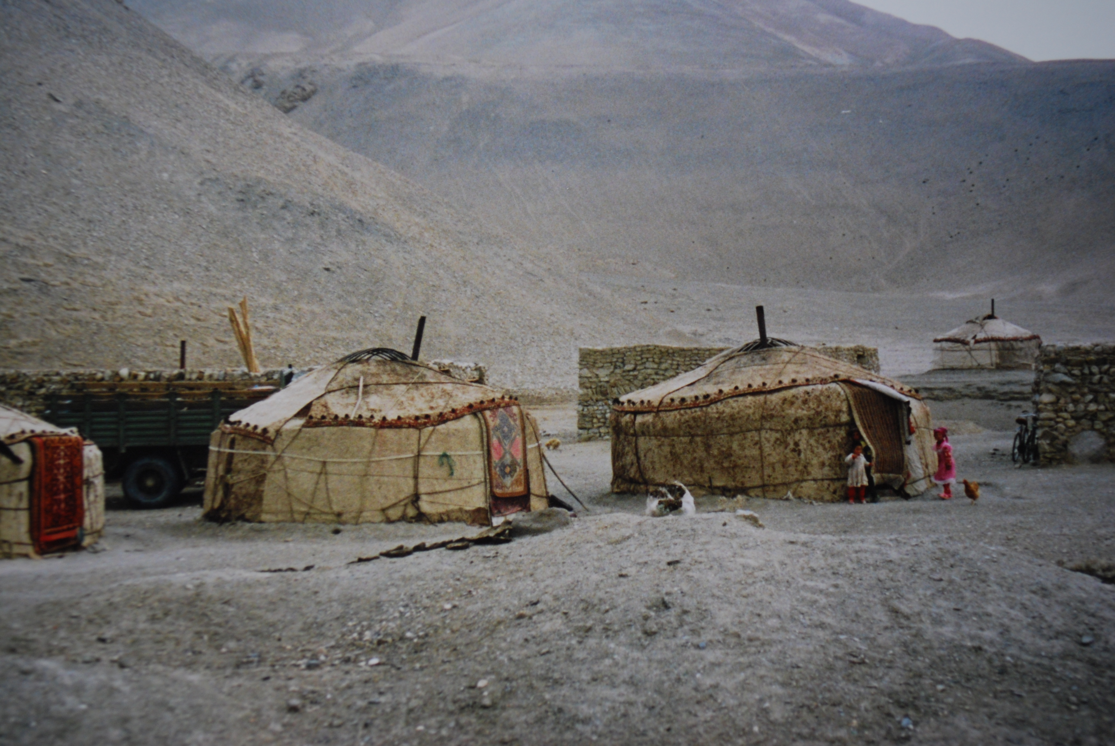 Yurt of the Kyrgyz,Kizilsu Kirghiz Autonomous Prefecture,Xinjiang,china